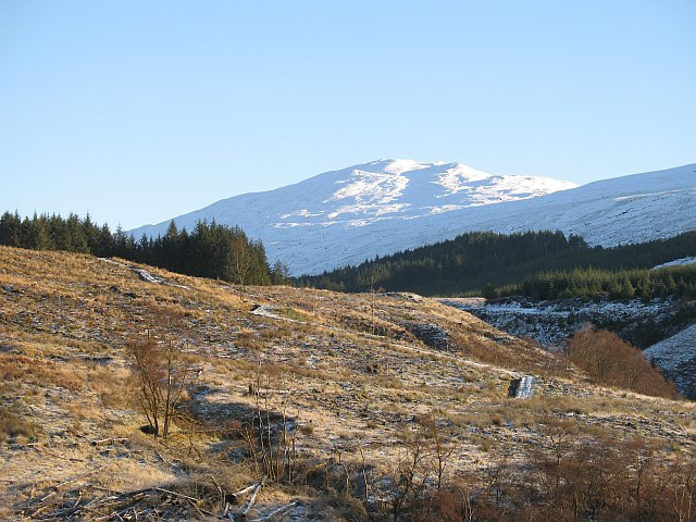 Felled area above the Garvie Deep snow cover on Creag Tharsuinn above forested Strath nan Lùb.